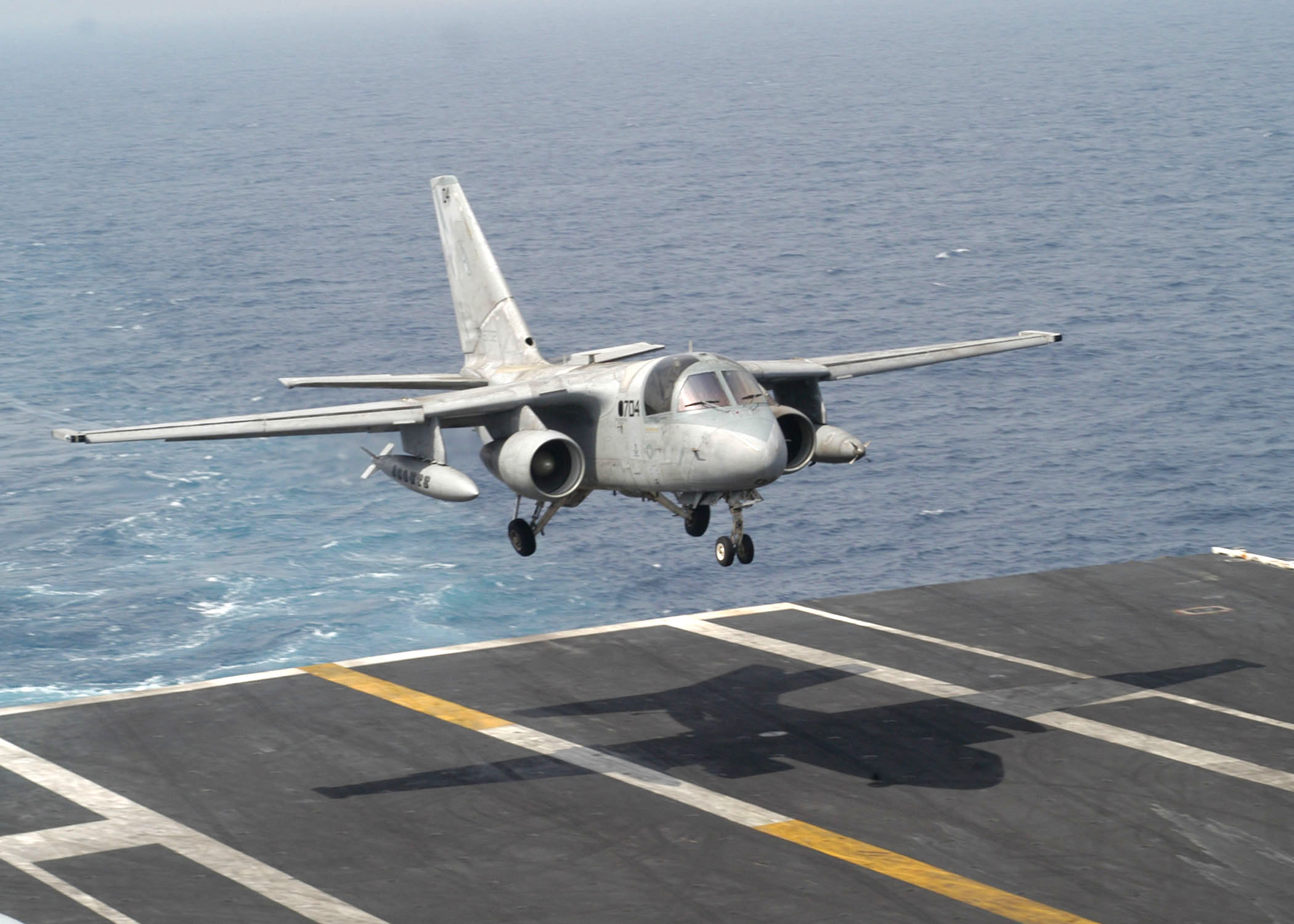 Mediterranean Sea (Apr. 30, 2003) -- An S-3B Viking from assigned to the "Scouts" of Sea Control Squadron 24 (VS-24) lands on the flight deck of USS Theodore Roosevelt (CVN 71), which is currently deployed conducting operations in support of Operation Iraqi Freedom. Operation Iraqi Freedom is the multi-national coalition effort to liberate the Iraqi people, eliminate Iraq’s weapons of mass destruction and end the regime of Saddam Hussein. U.S. Navy photo by Photographer’s Mate Airman Apprentice Chris Thamann. (RELEASED)